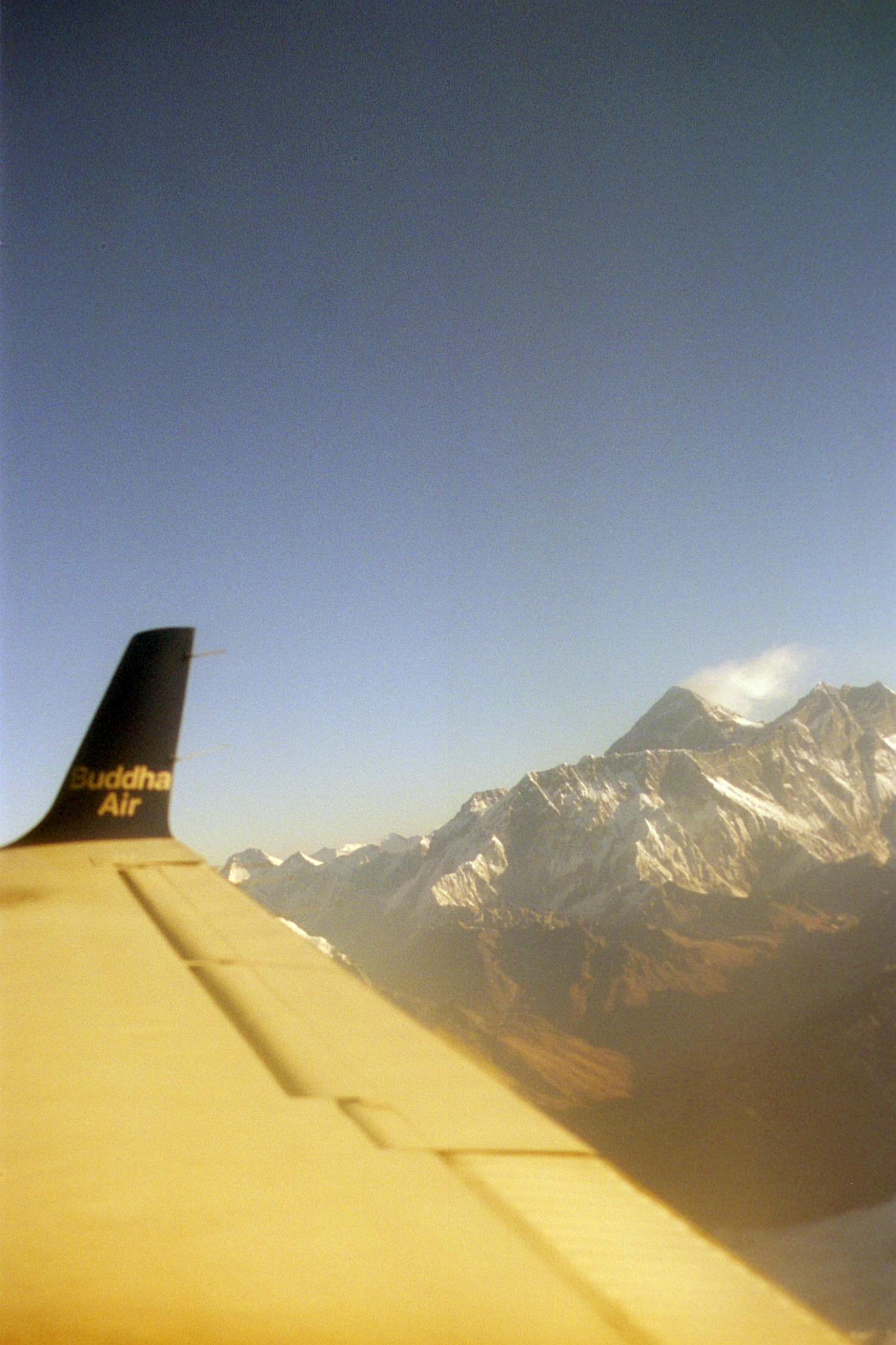 Buddha Air and Mount Everest (with cloud), Nepal